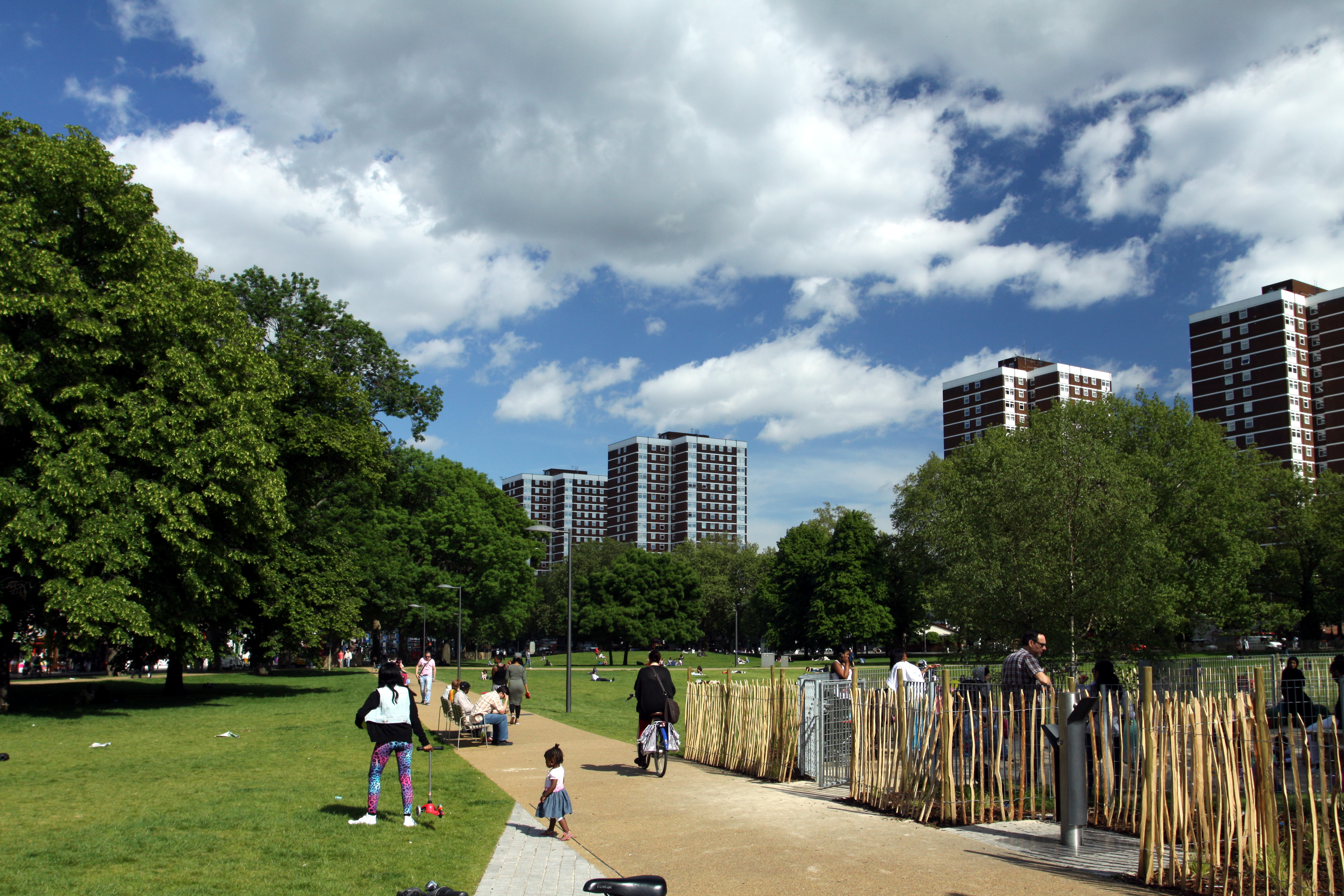 Shepherds Bush Common in London Borough of Hammersmith and Fulham, London, England, Great Britain The making of this file was supported by Wikimedia UK.